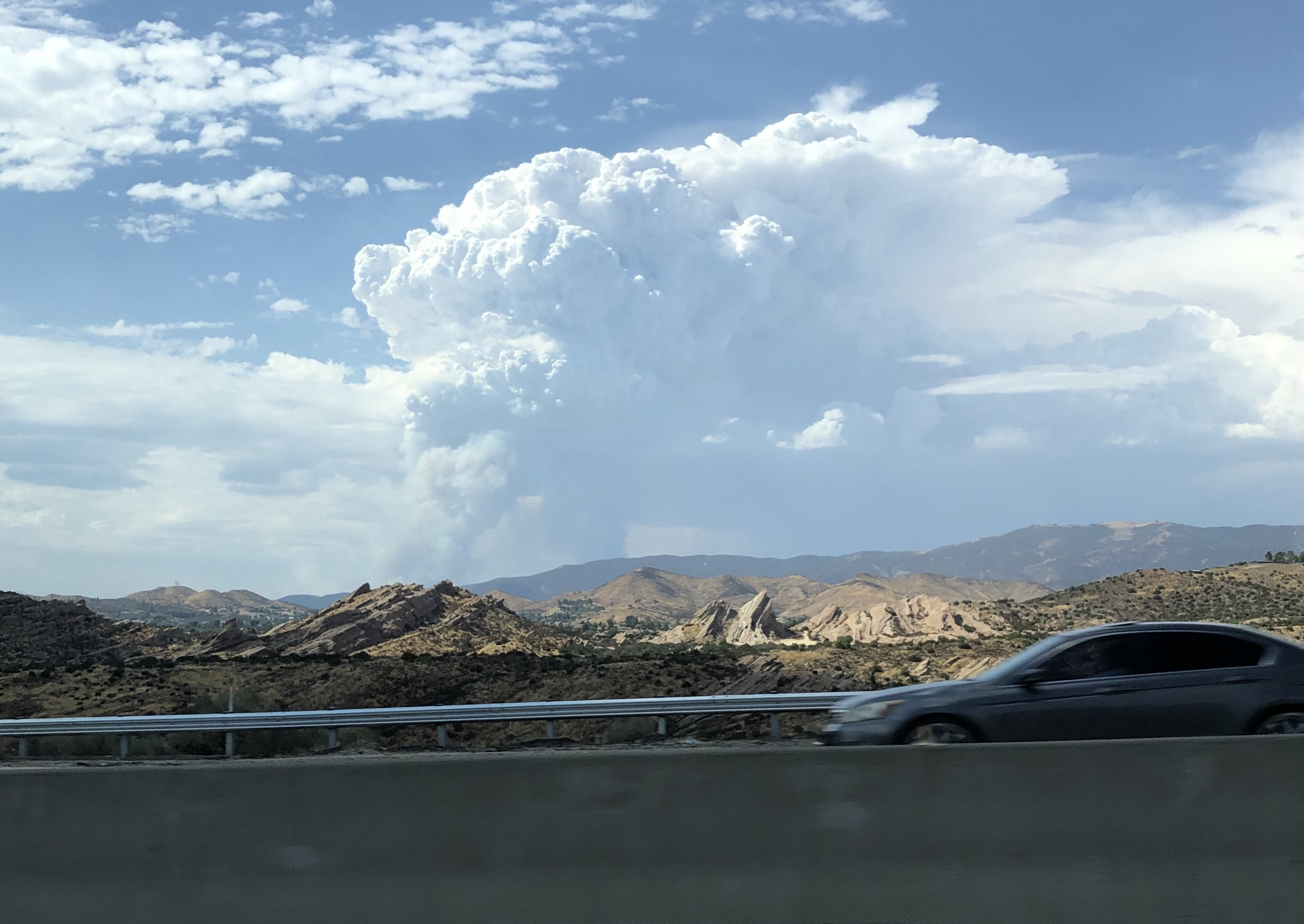 The smoke from the Lake Fire viewed from the CA-14. As of the taking of the picture, it had burned more than 10,000 acres of land.